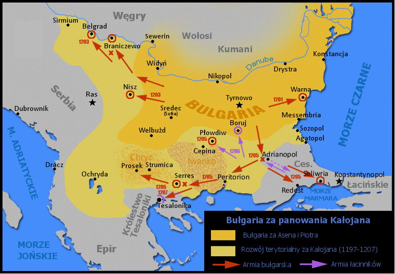 Bulgaria under Kaloyan (1197-1207)